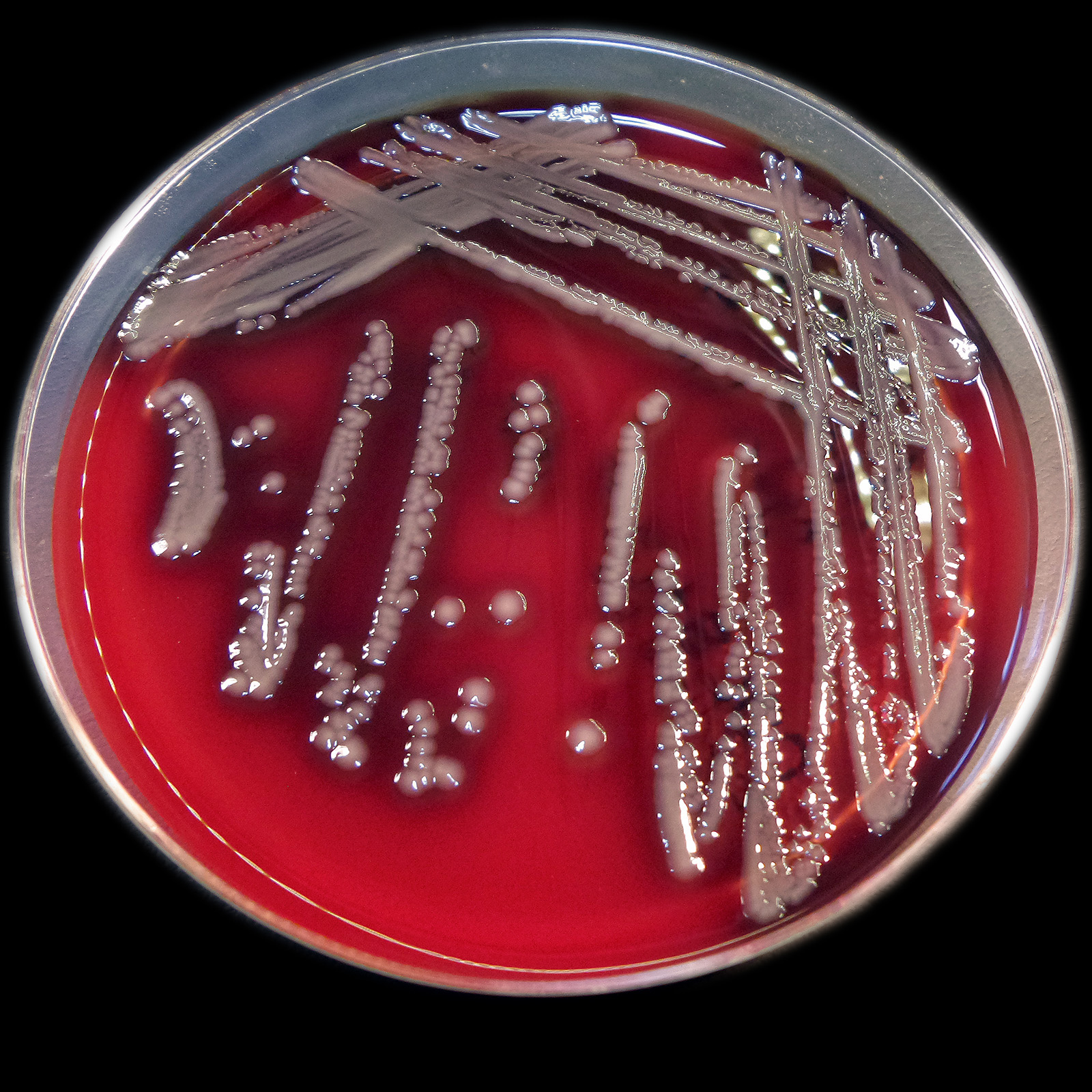 Aeromonas hydrophila colonies growing on the blood agar. Colonies shown with reflected light.